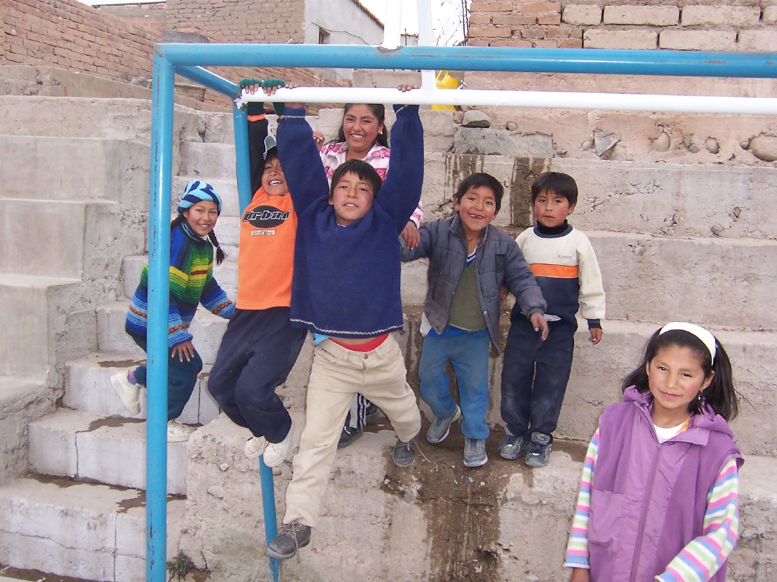 Bolivian children.